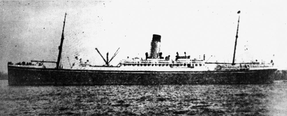 SS Themistocles built in 1910 by Harland and Wolff. 11,231 GRT. Owned by Aberdeen Line, later Shaw Savill and Albion Line. Made 79 voyages between the UK, South Africa and Australia in her 35 years of service. Was a troopship in World War I. Sold in 1947 to ship breakers.